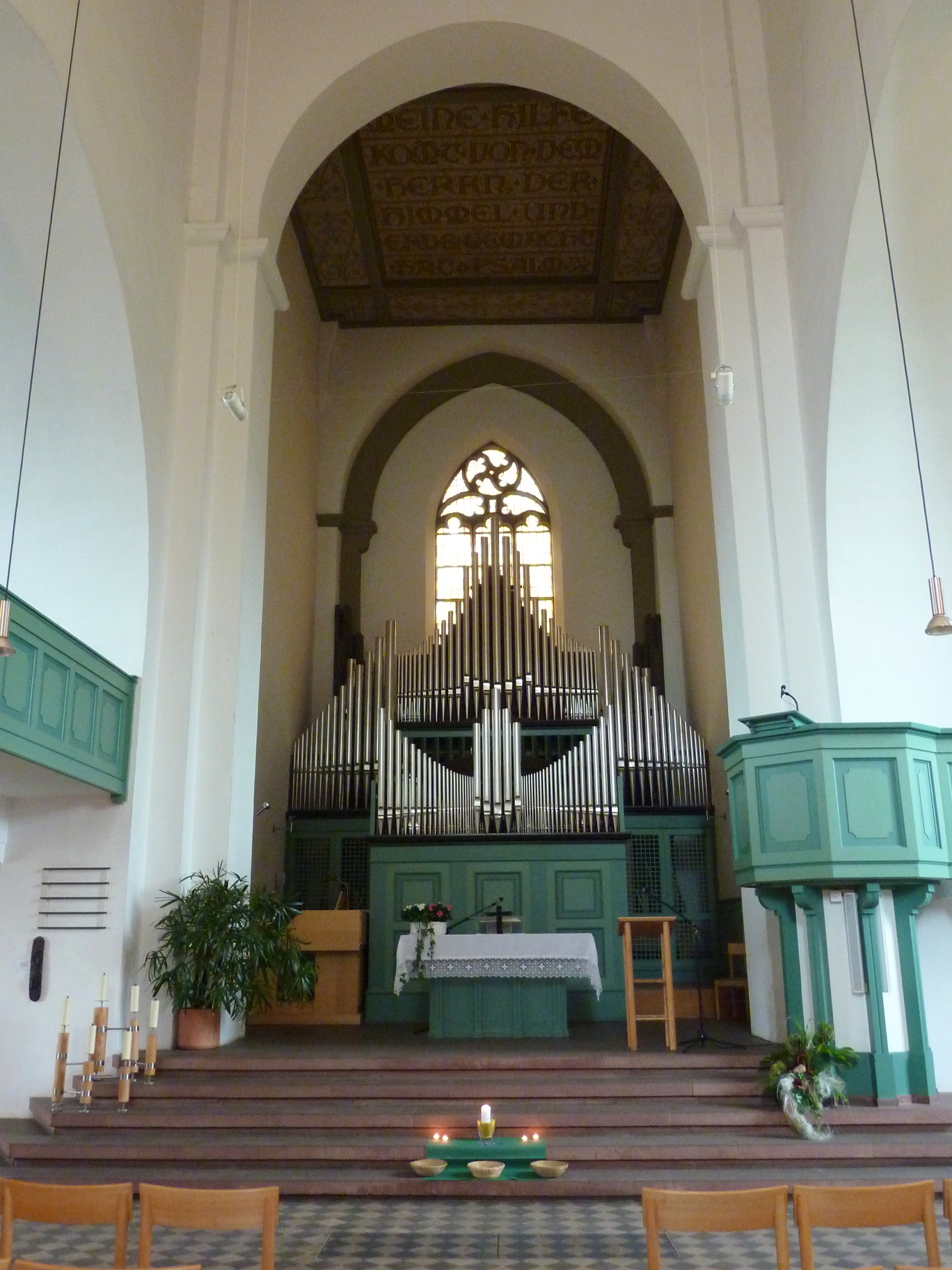 City of Siegen (Westphalia, Germany): Medieval St. Martin’s church (Martinikirche) on the Siegberg mountain in the center of town